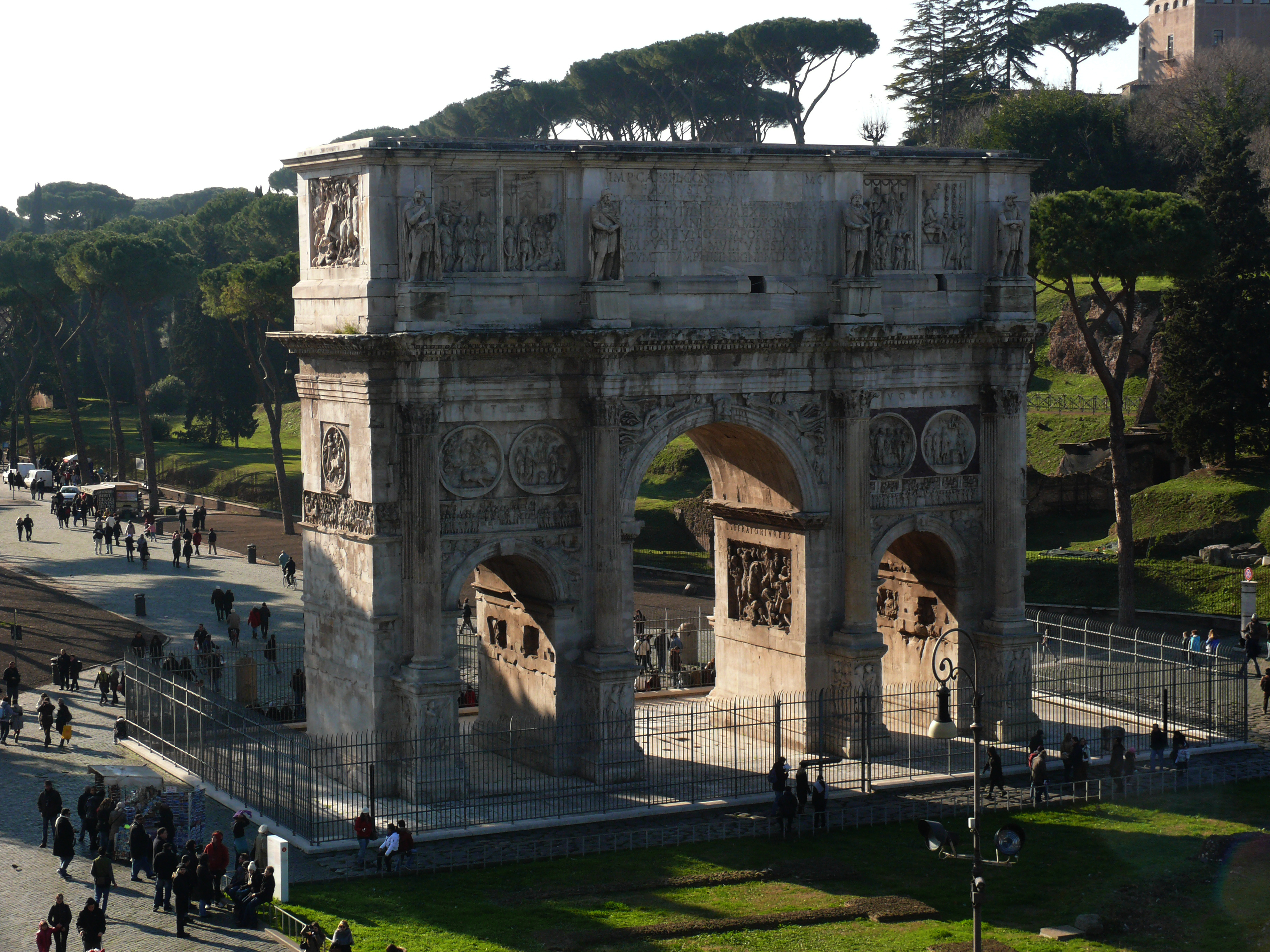 archofconstantine